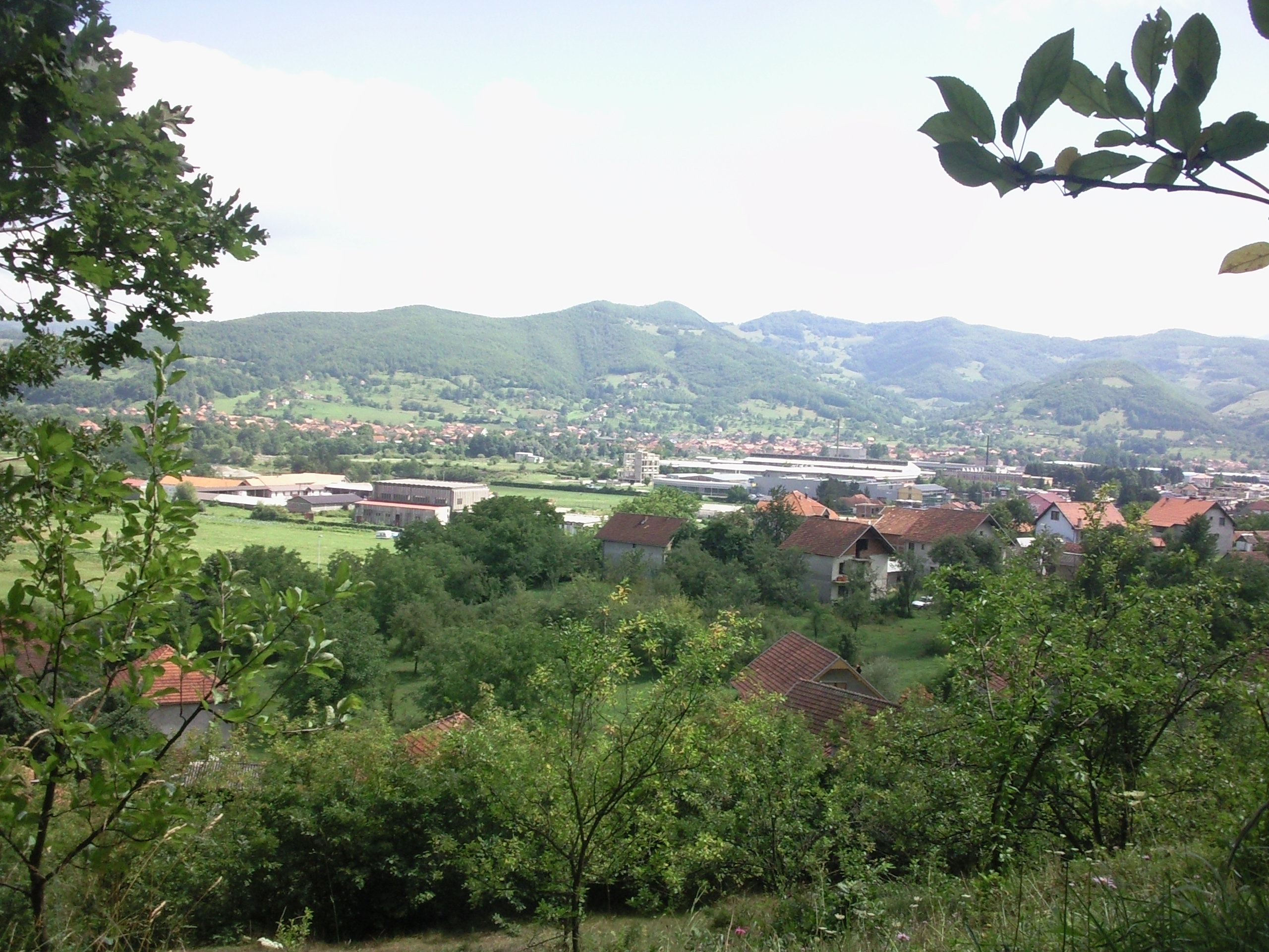 Nedakusi, vilage in Bijelo Polje, Montenegro